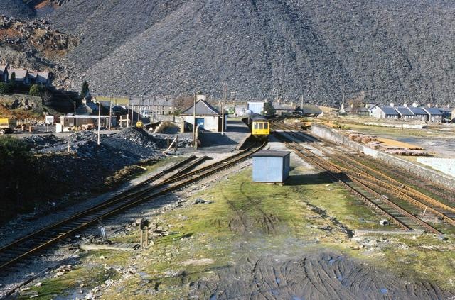 The site of the old LNWR station (Stesion Fein) in Blaenau Ffestiniog during reconstruction of the Ffestiniog Railway in 1981.